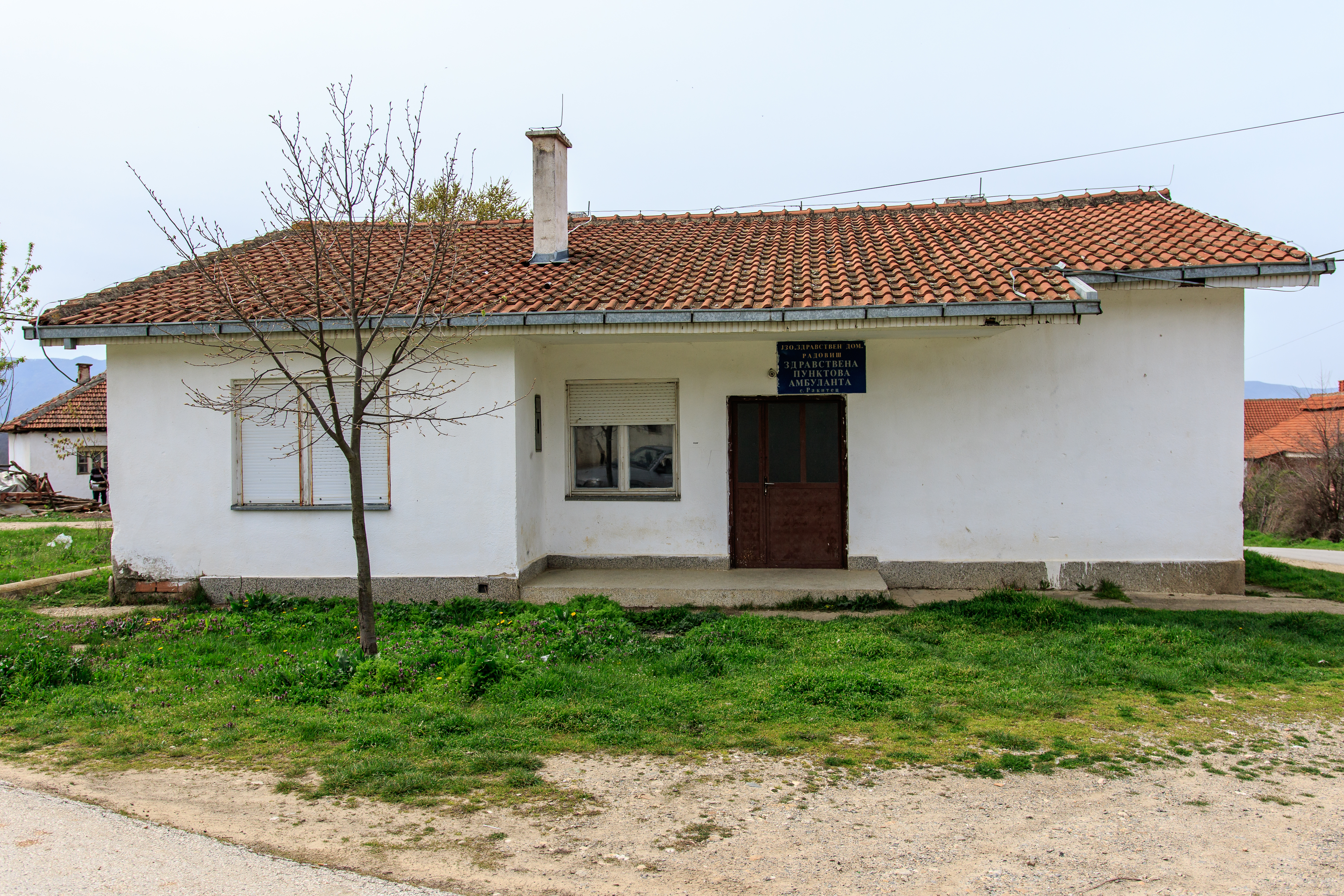 Infirmary in the village Rakitec